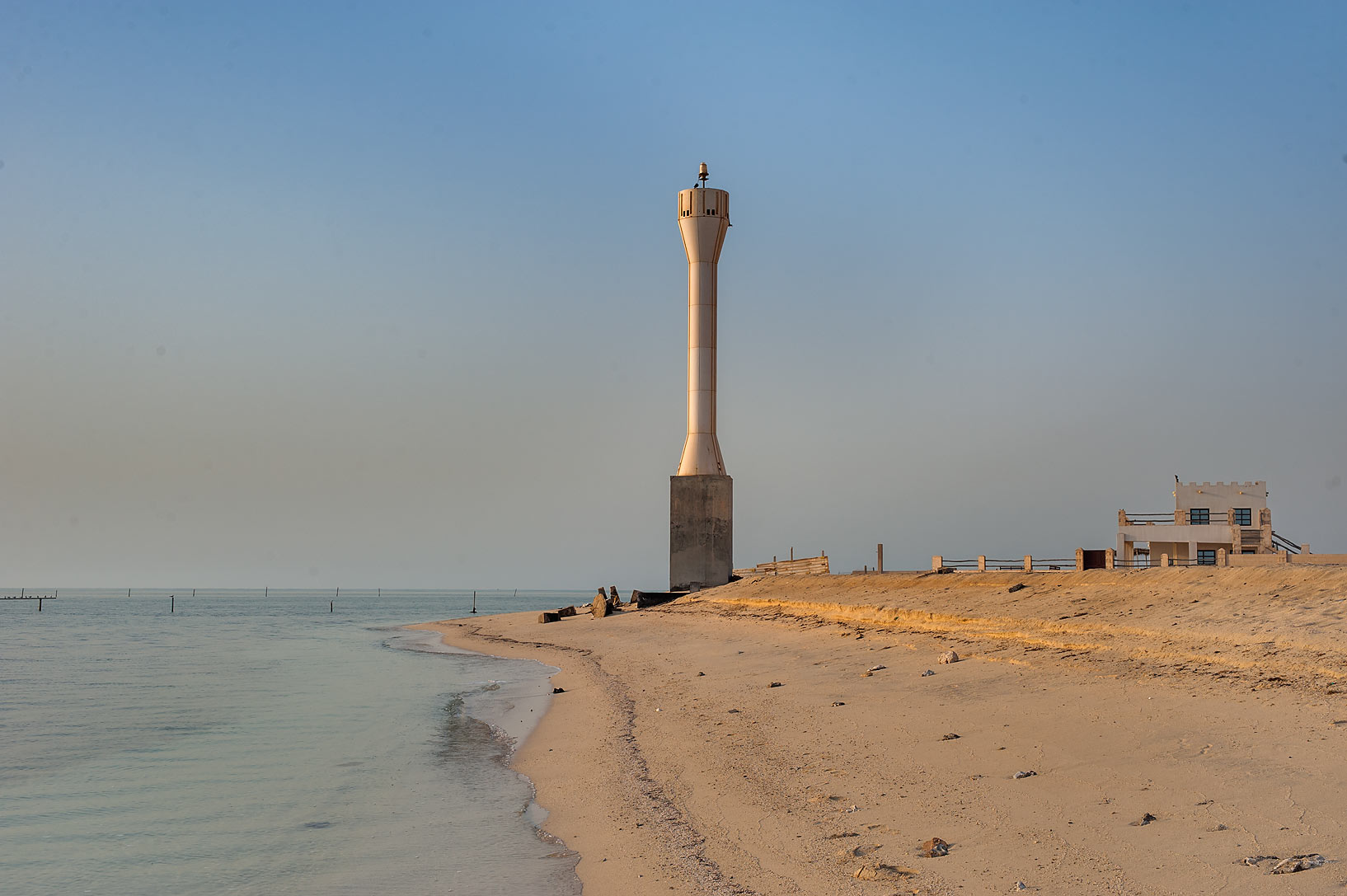 Lighthouse on a beach in Al Ghariyah, northern Qatar.